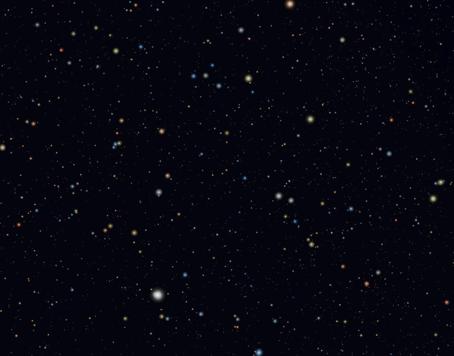 Image of Aquarius